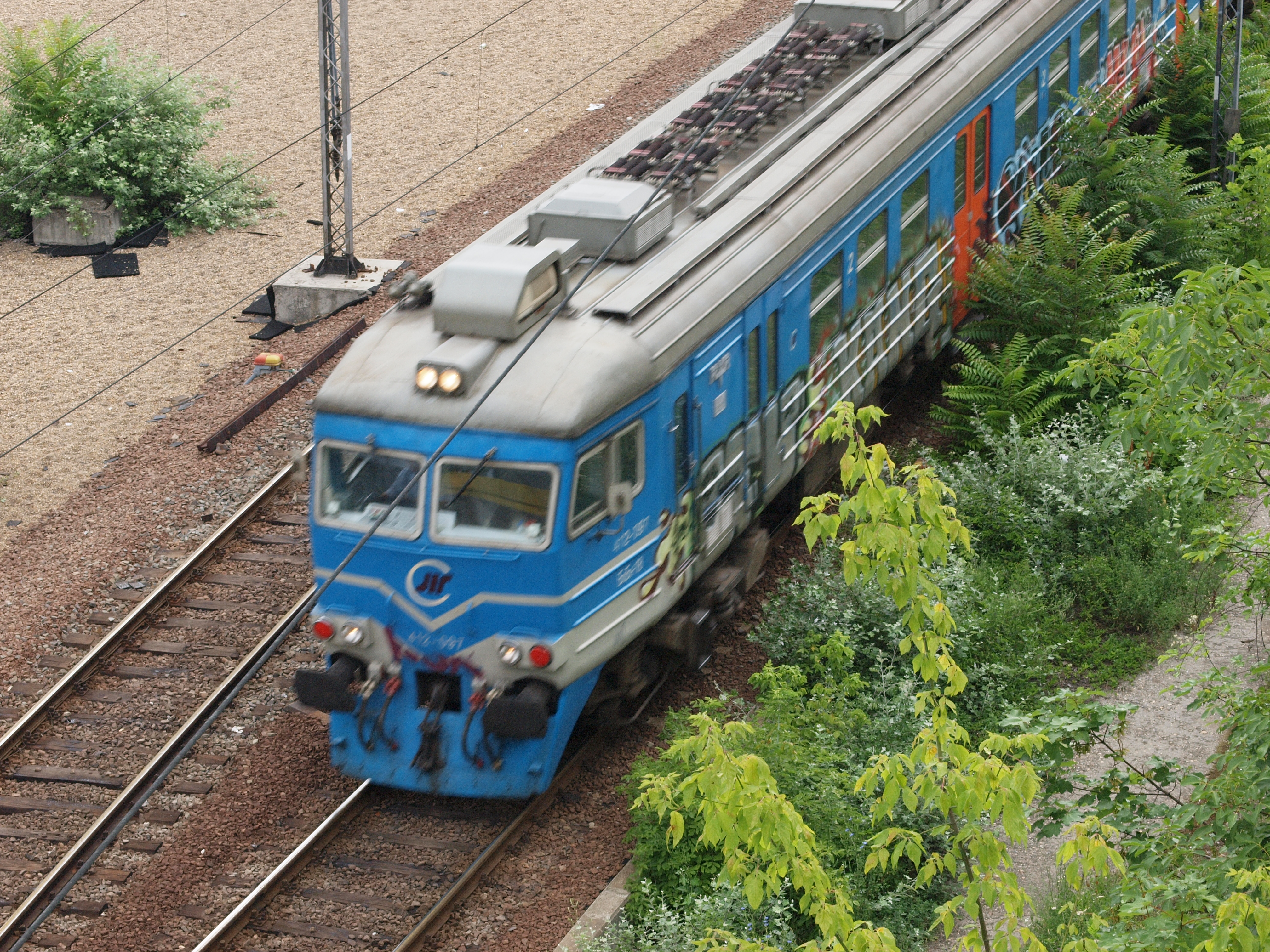 Beovoz, Belgrade